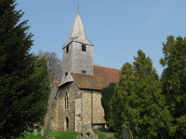 Parish Church of St Mary the Virgin, Kemsing (1) On Church Lane.